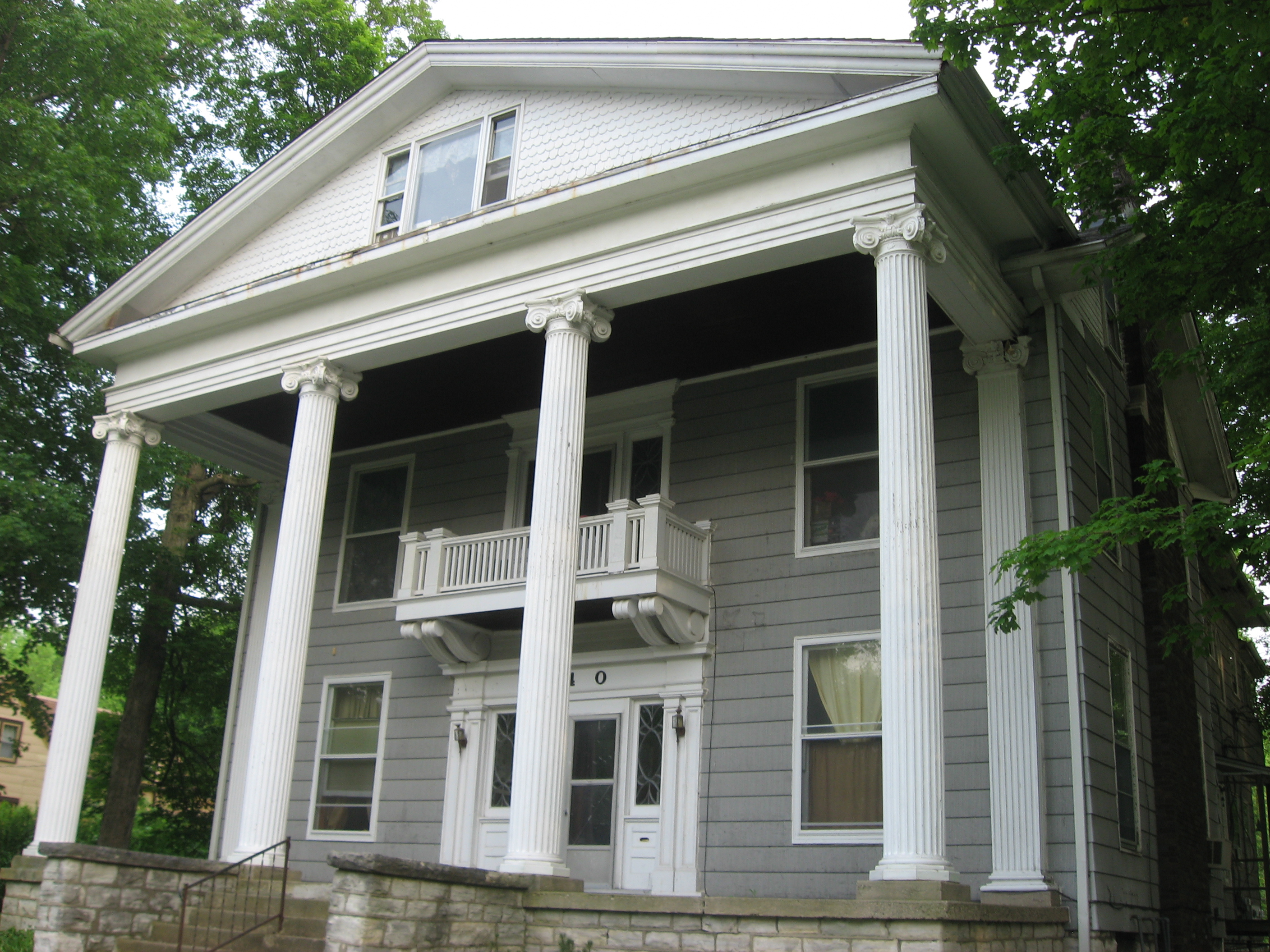 Front of the James B. Nelson House, located at 640 E. Seminary Street in Greencastle, Indiana, United States. Built in 1900, it is a part of the Eastern Enlargement Historic District, a historic district that is listed on the National Register of Historic Places.